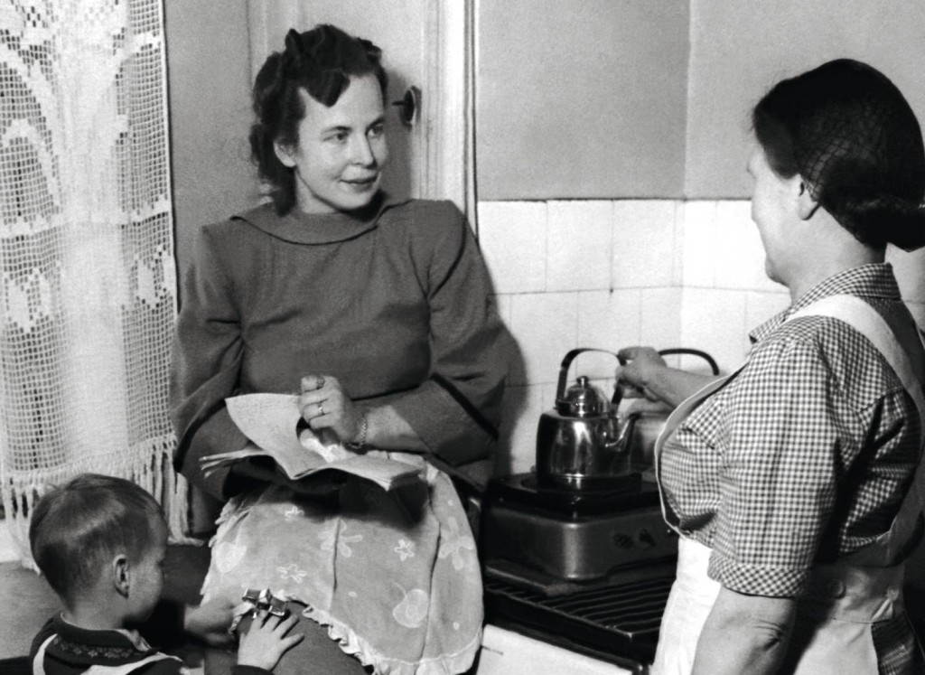 Photograph of the Finnish lawyer and minister Helvi Sipilä (1915–2009) at her home.